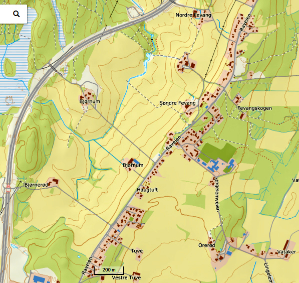 Map of Settlement along a main road in Norway